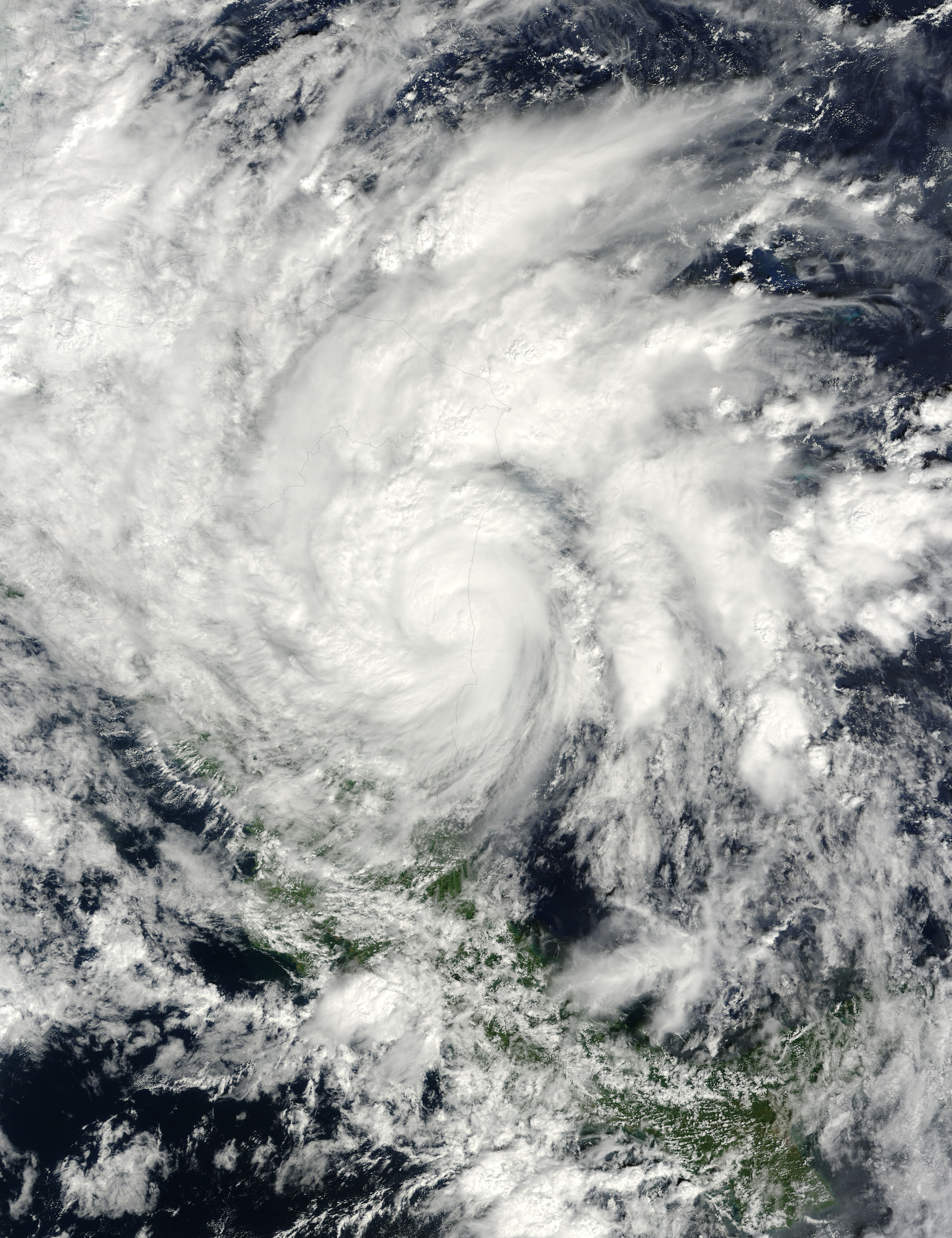 Hurricane Ida shortly after making landfall in Nicaragua